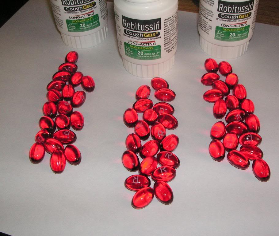 Robitussin Cough Gels